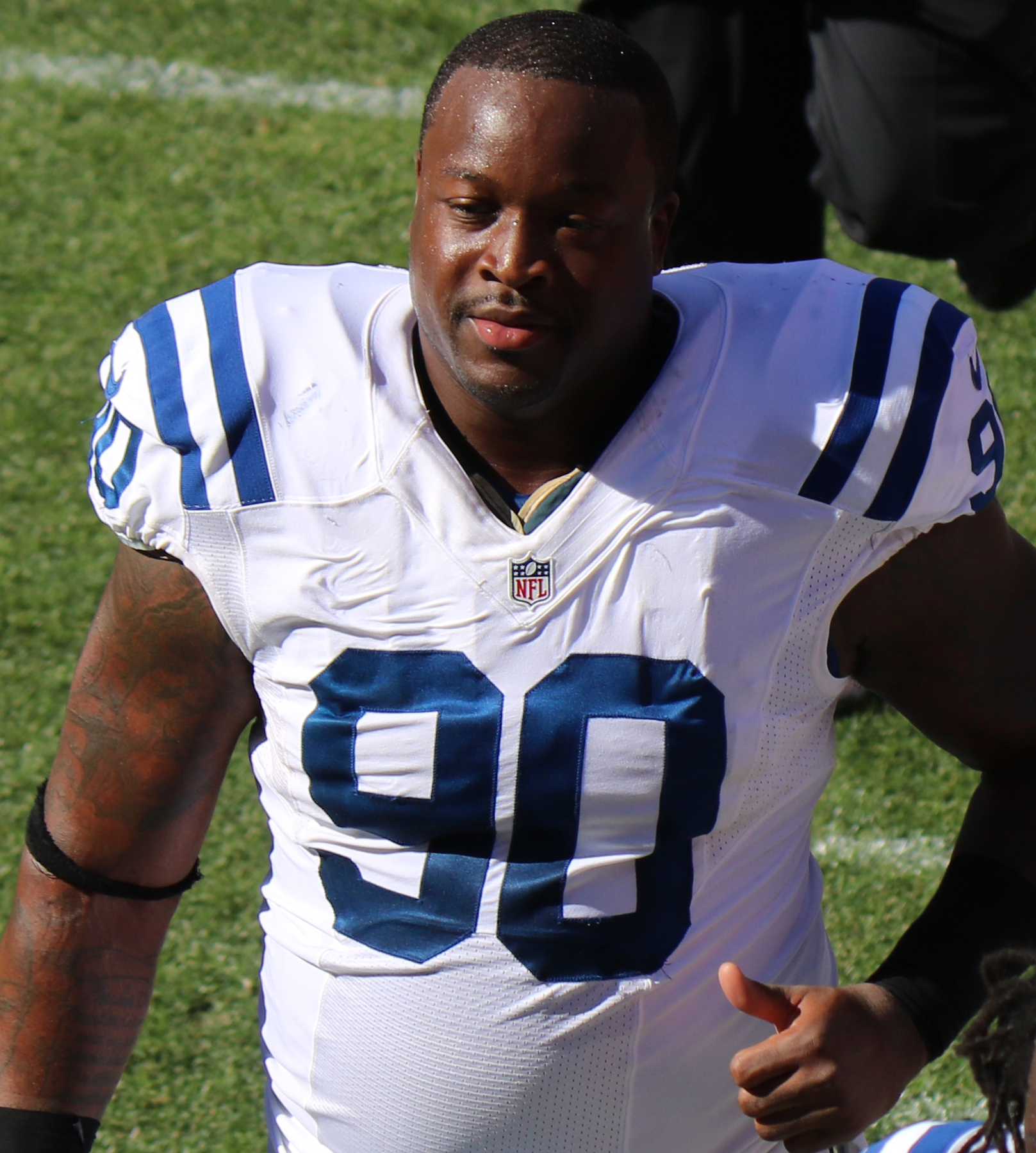 Kendall Langford, a player on the National Football League.